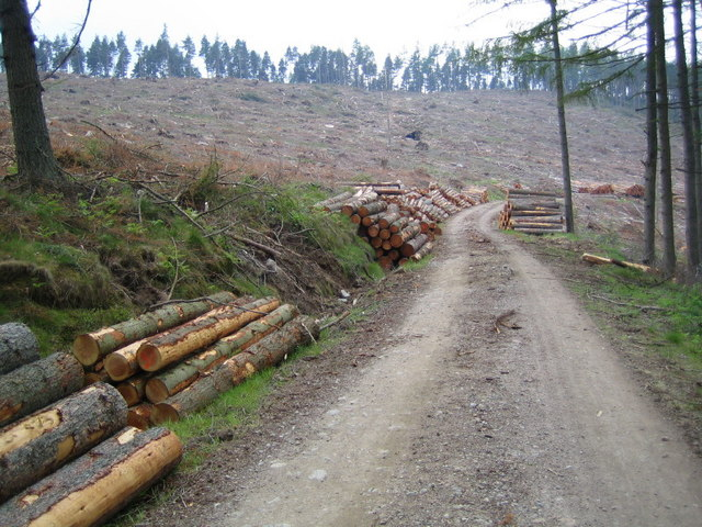 Harvesting timber in Blackhall Forest Timber in usually selected for harvesting in accordance with a management plan for the forest. In this case the weather selected the trees. The "great storm of 2006" felled almost every tree on this exposed hillside. Tree rings on the sections of sawn timber indicate that the trees were about 50 years old.